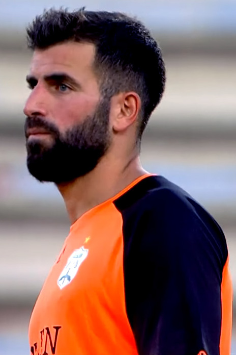 Adnan Haidar with Ansar against Nejmeh during the 2019-20 Lebanese Premier League